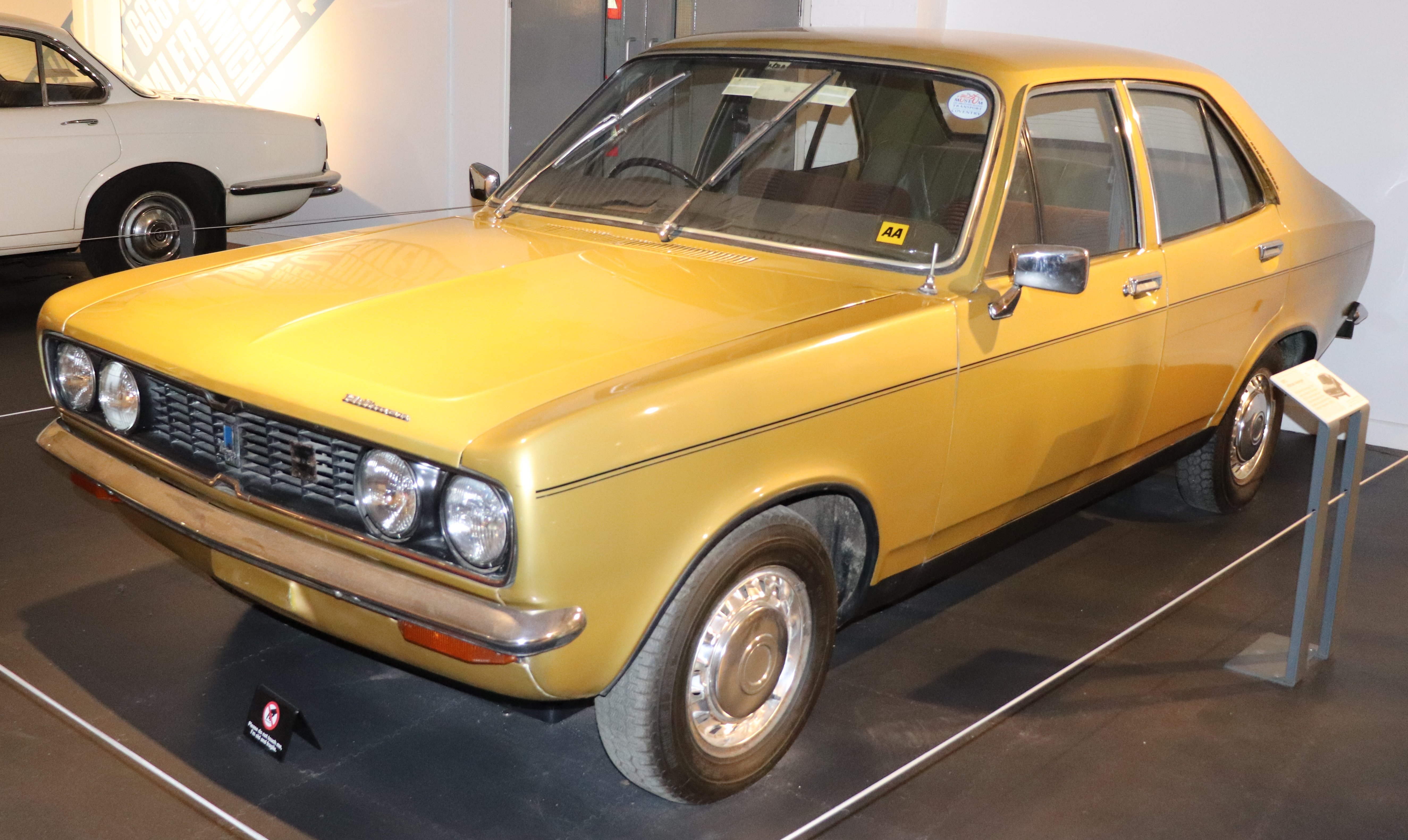 1972 Hillman Avenger 1.5 Taken in the Coventry Transport Museum